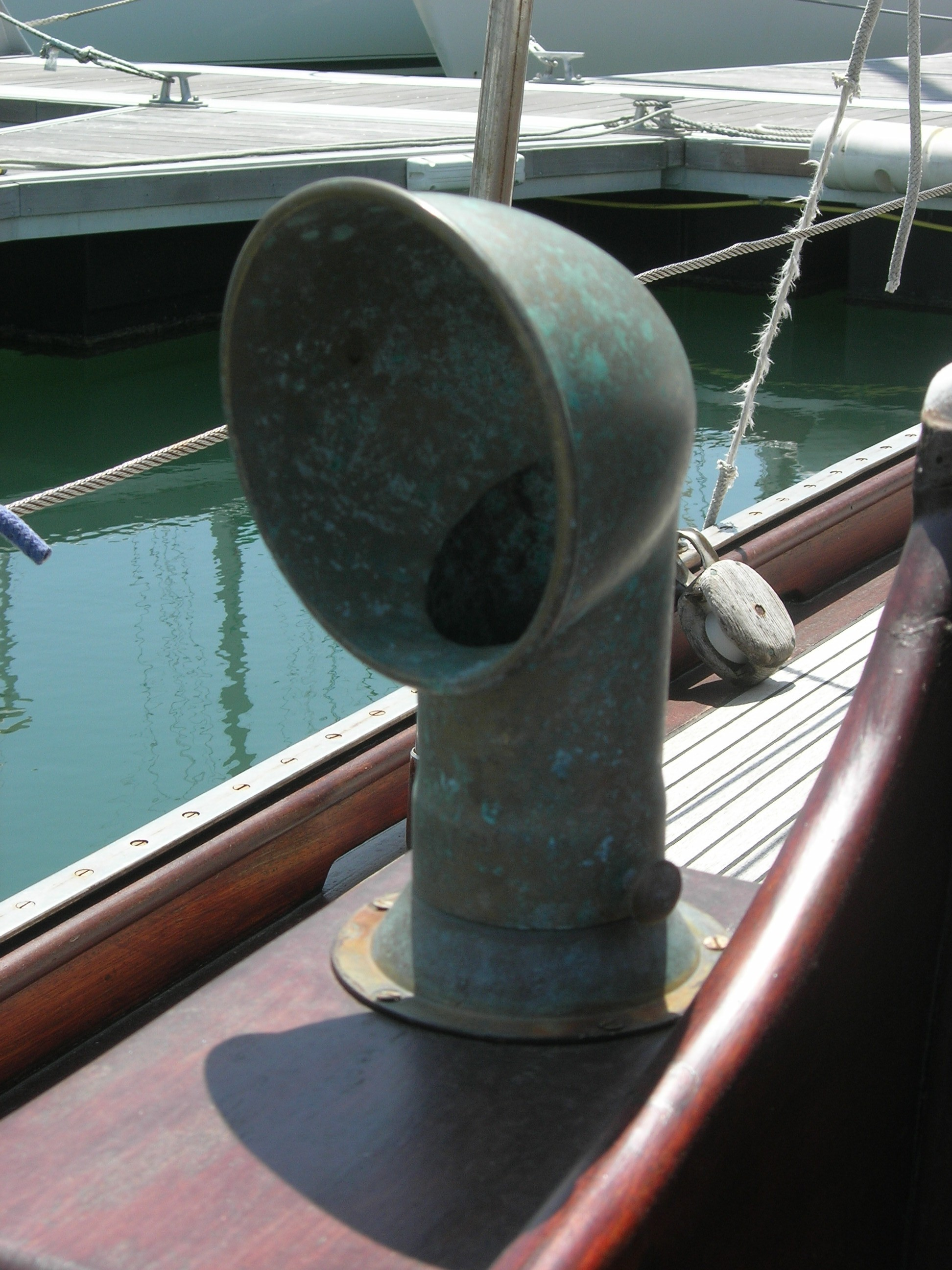 Description =Manche a air (Dorade) Source =Photo taken by Remi Jouan Date =Juin 2006 Author =Remi Jouan